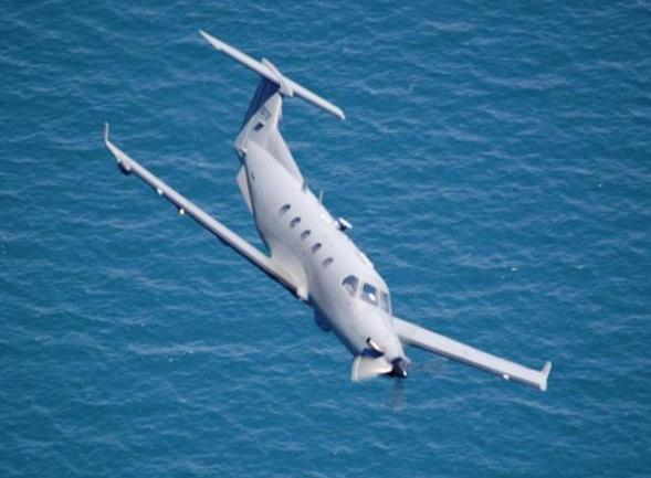 The United States Air Force U-28A provides a manned fixed wing, on-call/surge capability for Improved Tactical Airborne Intelligence, Surveillance, and Reconnaissance (ISR) in support of Special Operations Forces.